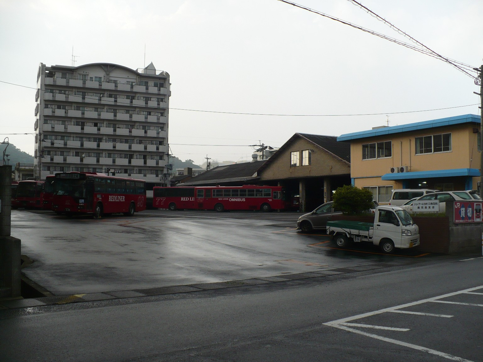 Kagoshima bus depot of JR Kyushu bus, Kagoshima, Kagoshima, Japan.